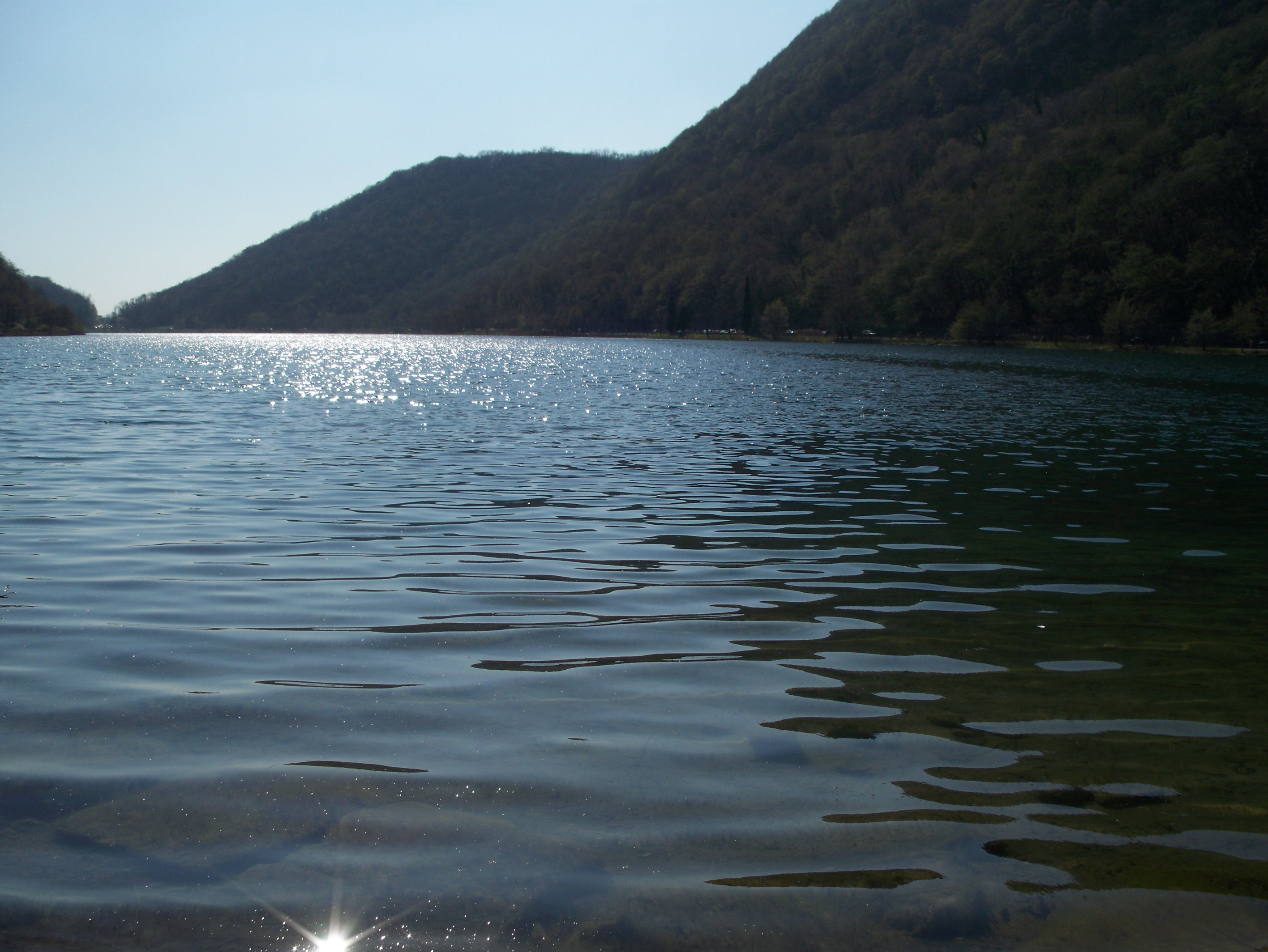 Lake Segrino in April 2013